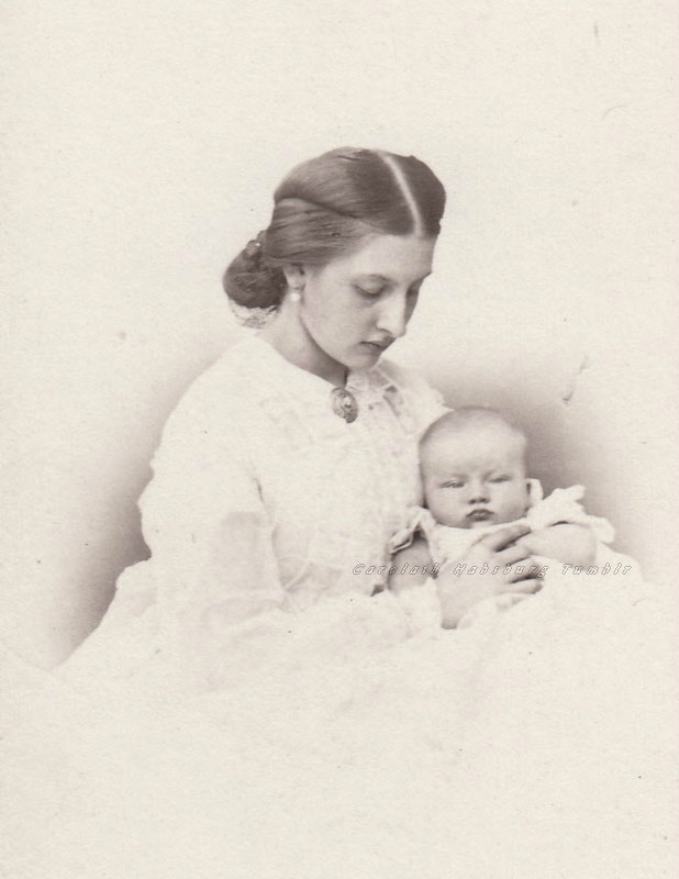 Princess Antonia of Hohenzollern-Sigmaringen, neé Infanta of Portugal with eldest son, Prince Wilhelm. 1864